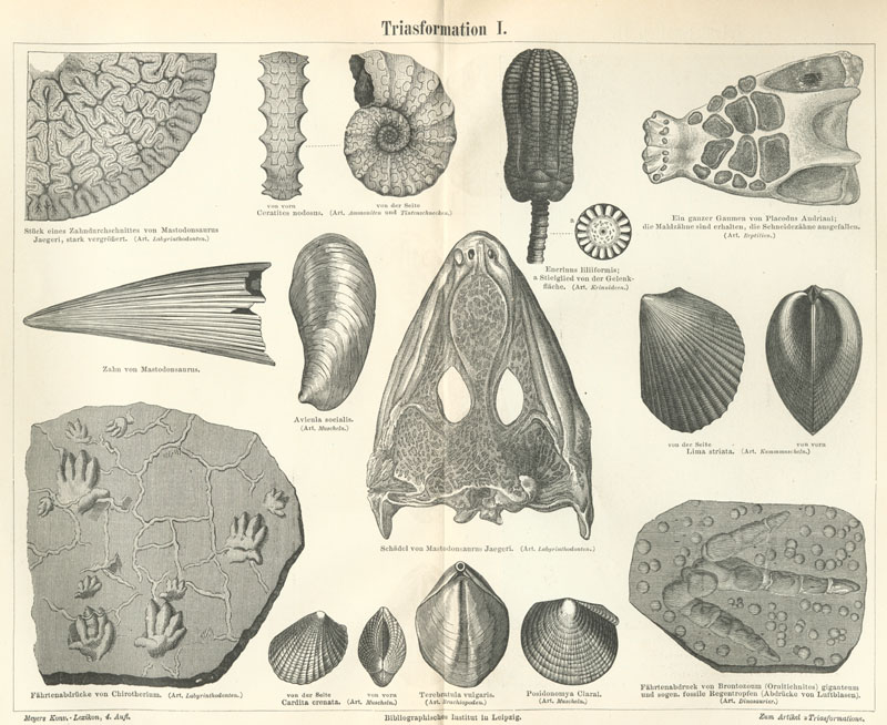 Some fossils of marine and terrestrial animals of the Triassic age